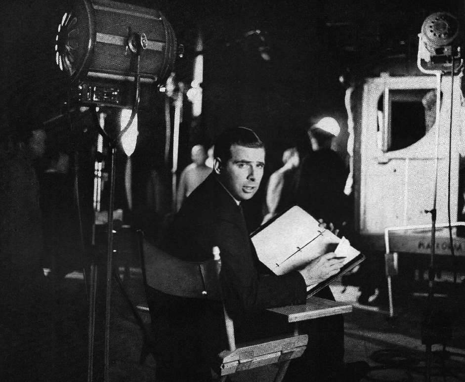 A photograph of Gene Roddenberry from 1961, used to advertise for Mutual of New York. Published in Look magazine.